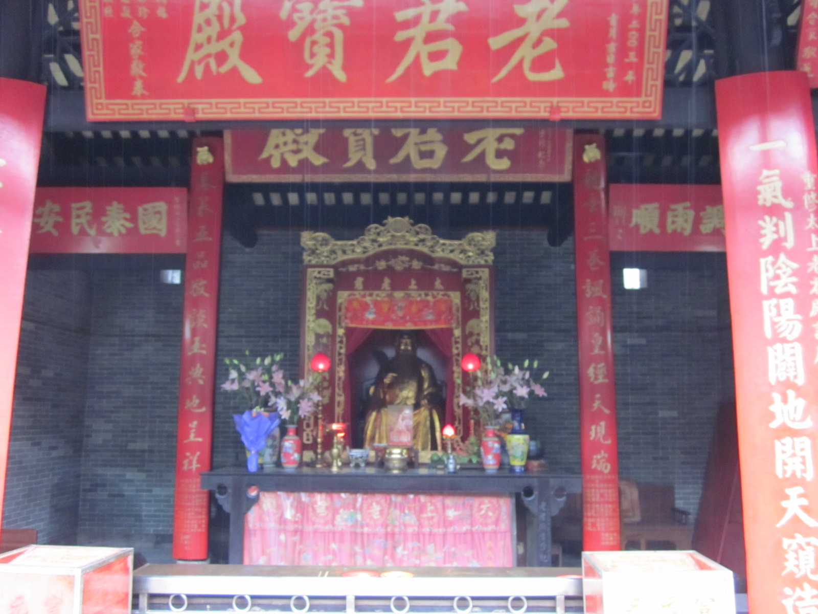 San-yuan Palace